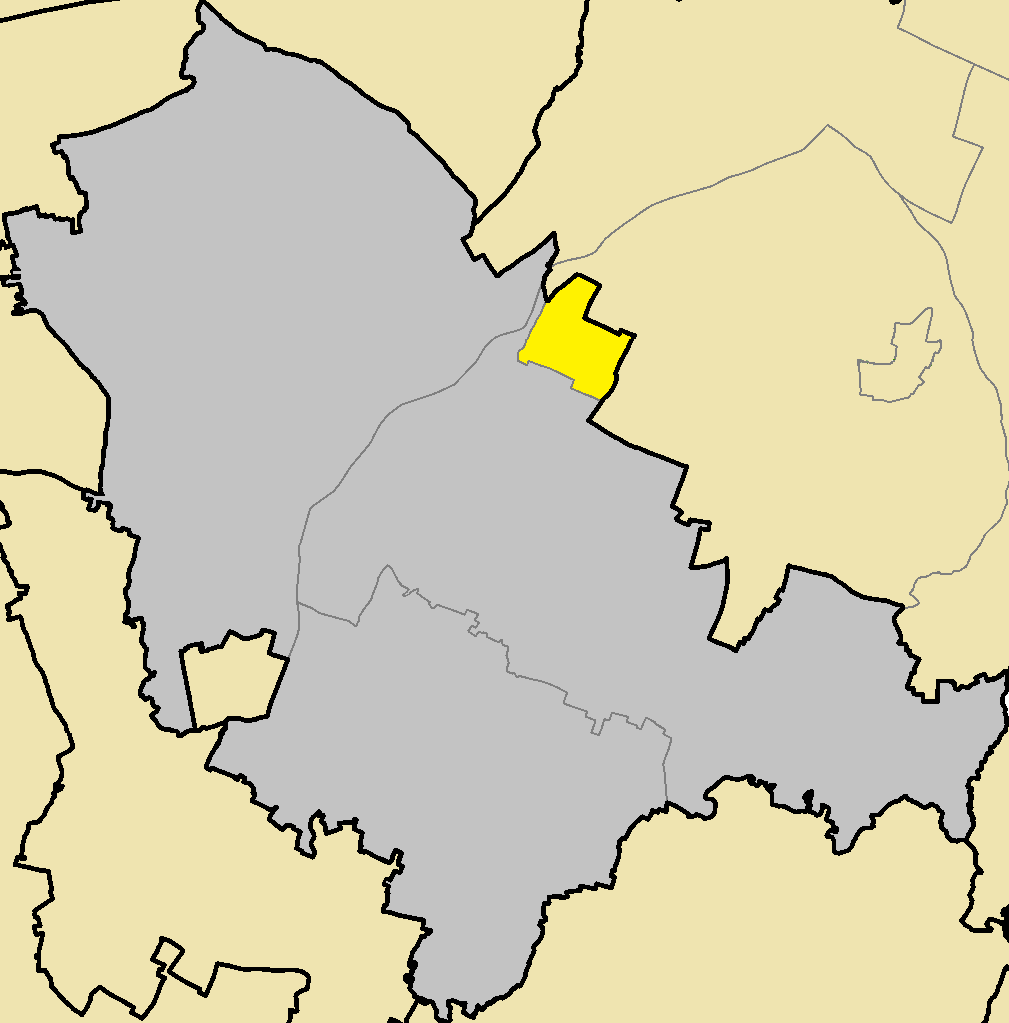 Agios Mamas in Lakatamia.